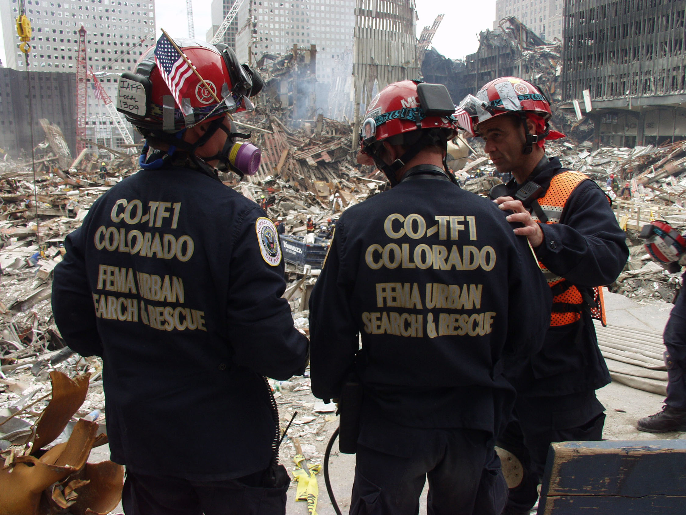 Members of Colorado Task Force-1 receive instructions before entering ground zero at the world Trade Center.